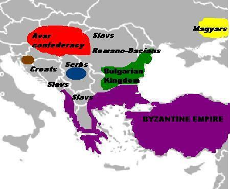 Central and Eastern Europe (with focus on Balkans) around 700 AD. It depicts the Byzantine Empire, Daco-Romans, Eurasian Avars, Slavs (incl. Serbs and Croats), Magyars. Created by Hxseek based on information from Euratlas